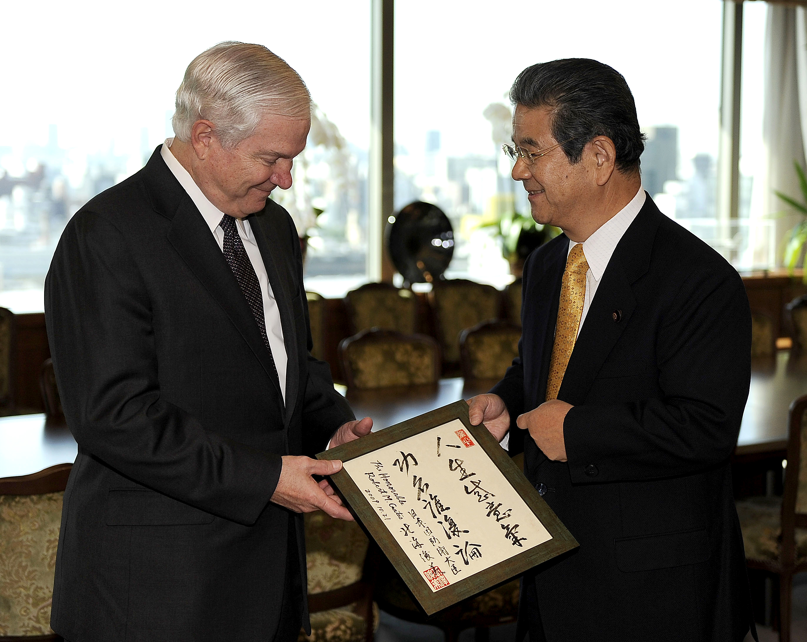 Robert Gates, Secretary of Defense, met Toshimi Kitazawa, Minister of Defense, at the Ministry of Defense in Shinjuku Ward, Tōkyō Metropolis on October 21, 2009.